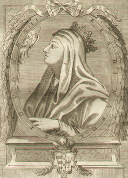 Joan II, queen of Naples